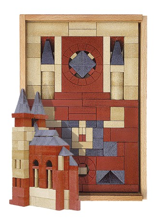 Anchor stone block set No. 6A